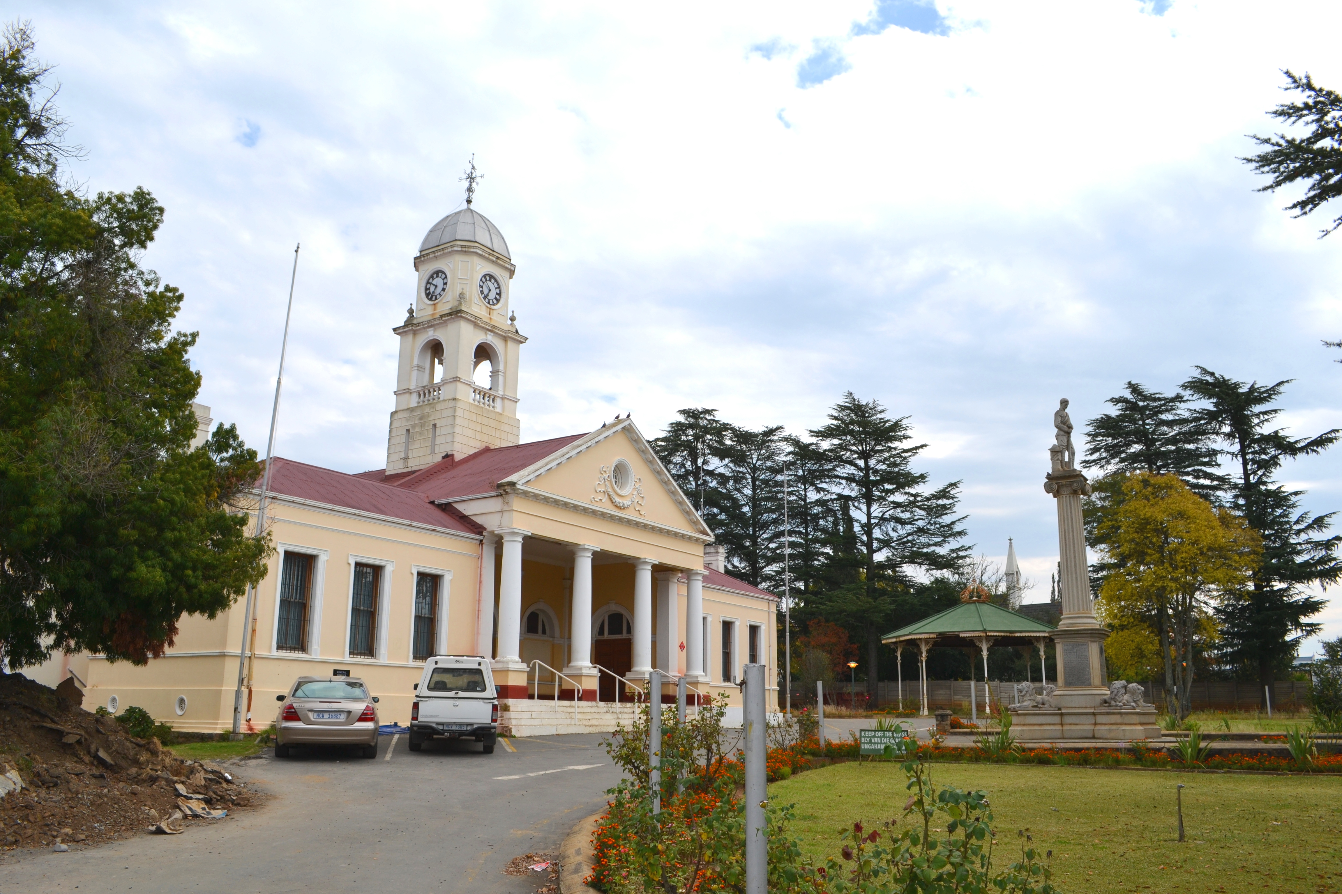 Kokstad, Kwa-Zulu Natal. This media shows a South African Protected Site with SAHRA file reference 9/2/423/0008.